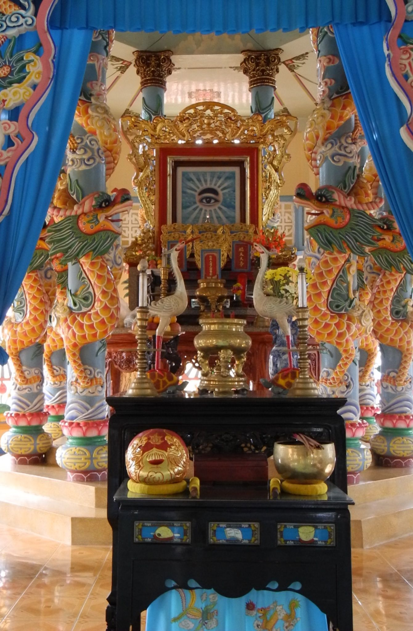 My Tho - Cao Dai Temple06